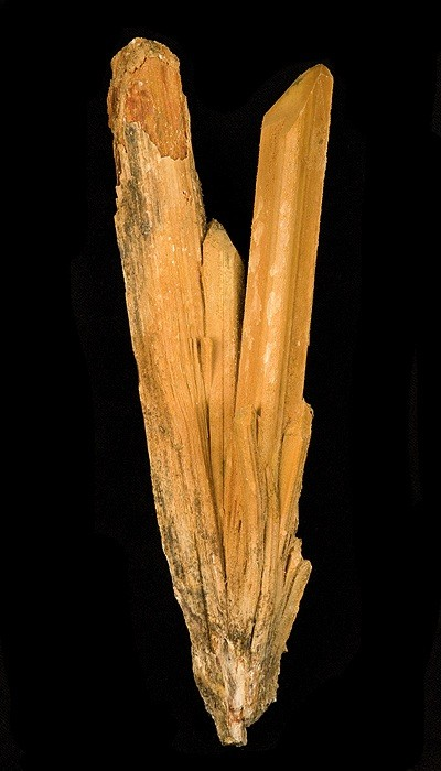 Valentinite, Cervantite, Stibnite Locality: Xikuangshan Sb deposit, Lengshuijiang County, Loudi Prefecture, Hunan Province, China (Locality at ) Size: 16.1 x 5.0 x 3.0 cm. An imposing, trident-like, large cabinet pseudomorph of ochre valentinite and cervantite after sharply terminated stibnite crystals. This specimen is from recent finds at the Xikuangshan Mine of China, the world’s largest antimony mine. This is an extremely large, damage--free specimen. The front side is extremely sharp and the back looks like it is lightly resorbed or very lightly contacted, but no damage, per se.